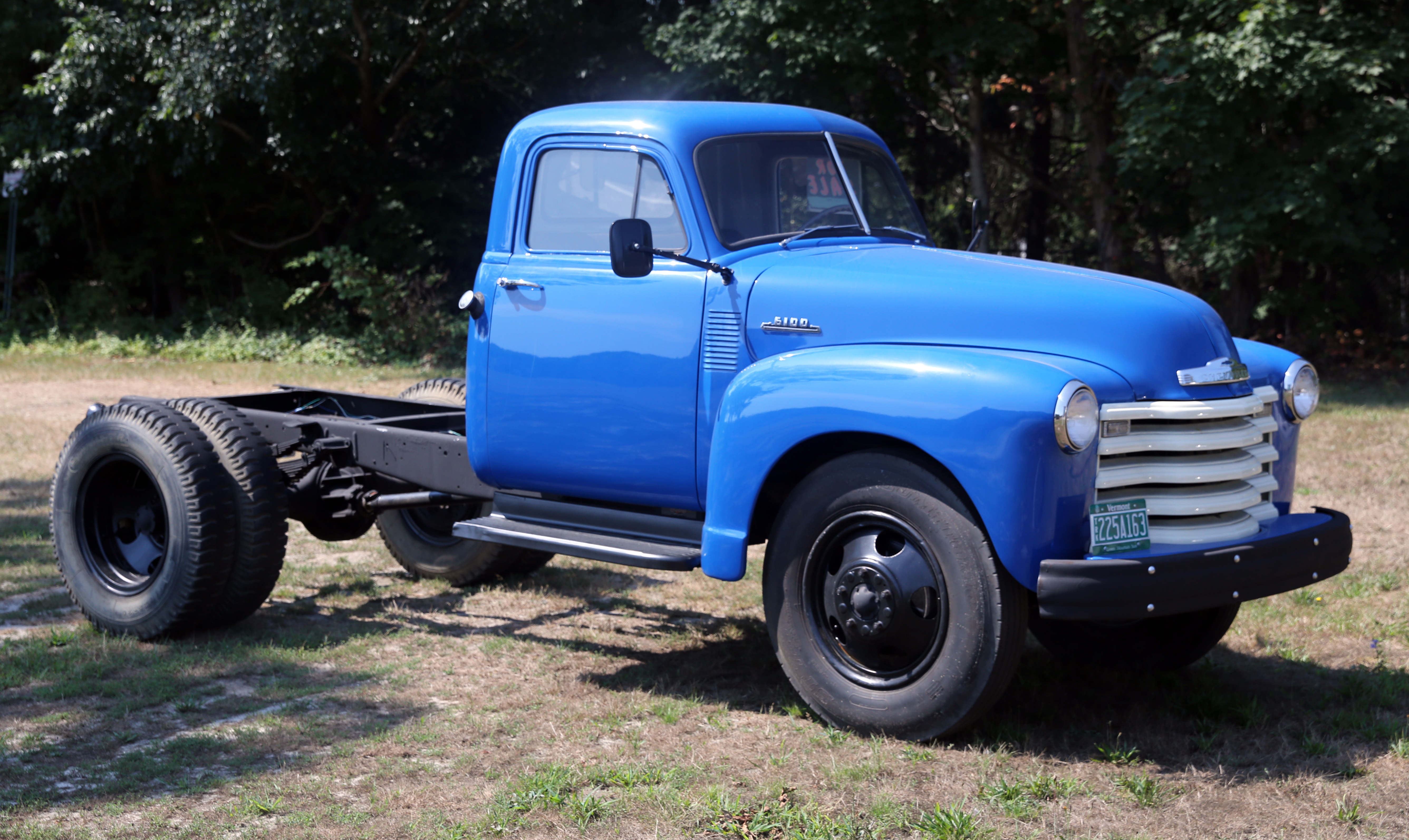 A 1953 Chevrolet 6100 Dually, cab-and-chassis. Internal code 6103 (V53), 235.5ci I-6 1bbl 108hp Loadmaster engine. Looks unmolested, but these old trucks have usually seen a lot of modifications over the years.